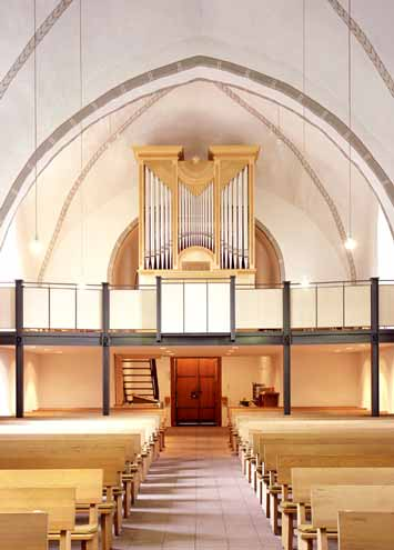 Organ in town of Spenge, District of Herford, North Rhine-Westphalia, Germany.